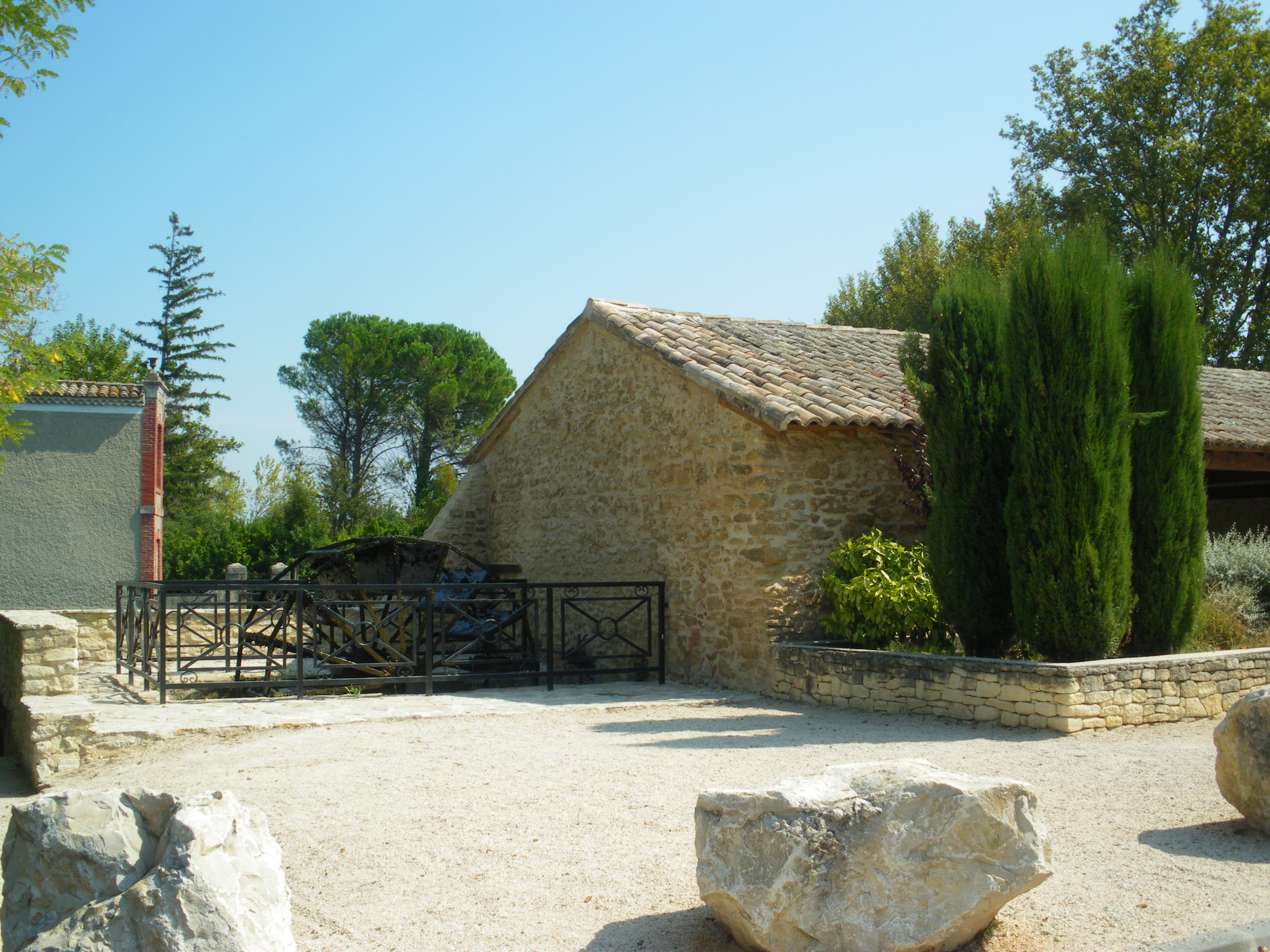 Wash house of Saint Saturnin lès Avignon, Vaucluse, France